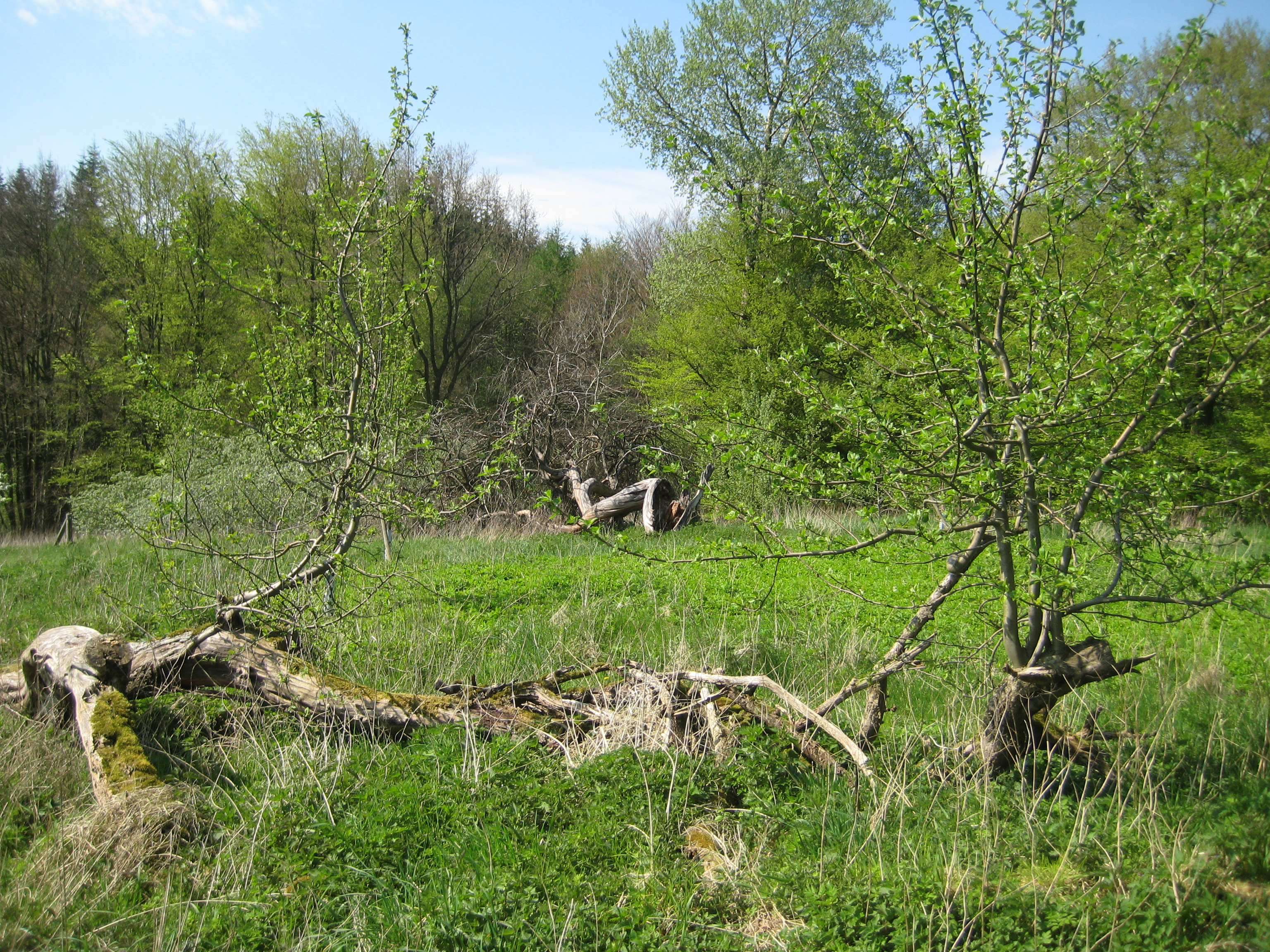 On the grounds of Naturerlebnisraum Itzequelle, Itzehoe